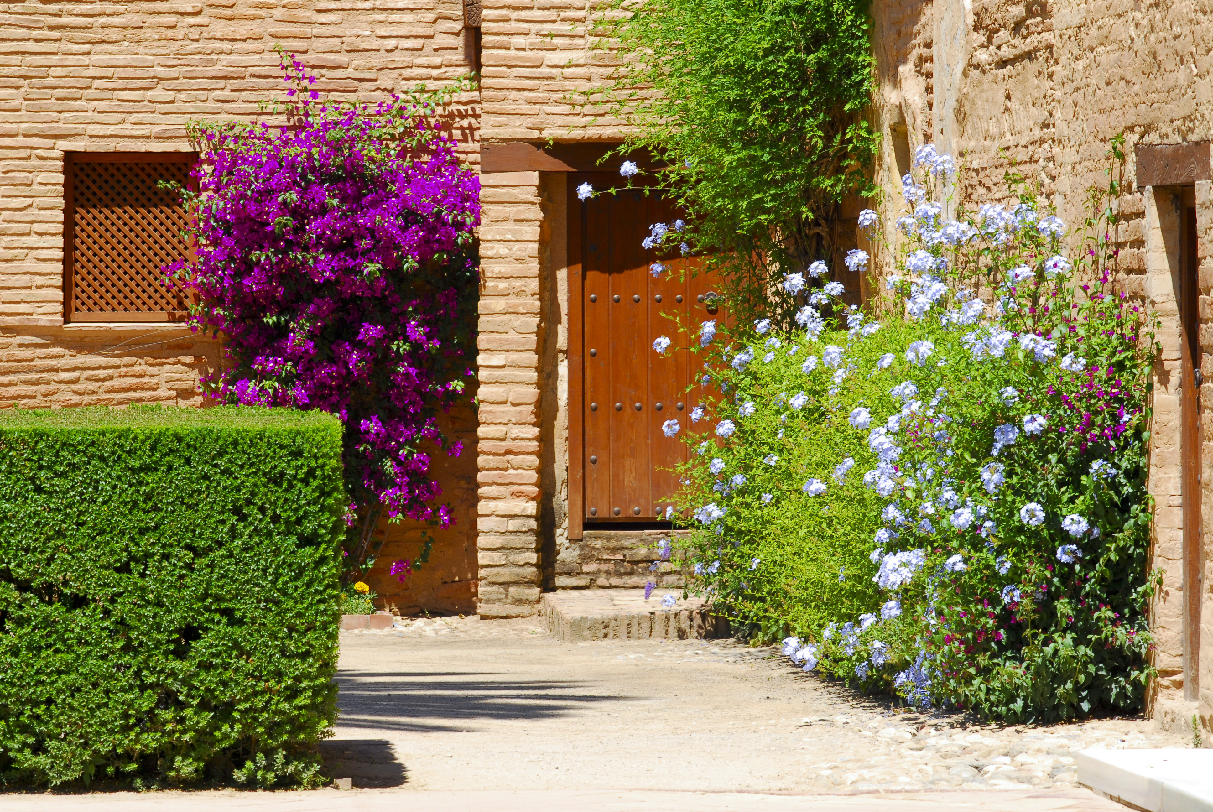 El Partal in Alhambra palace in Granada